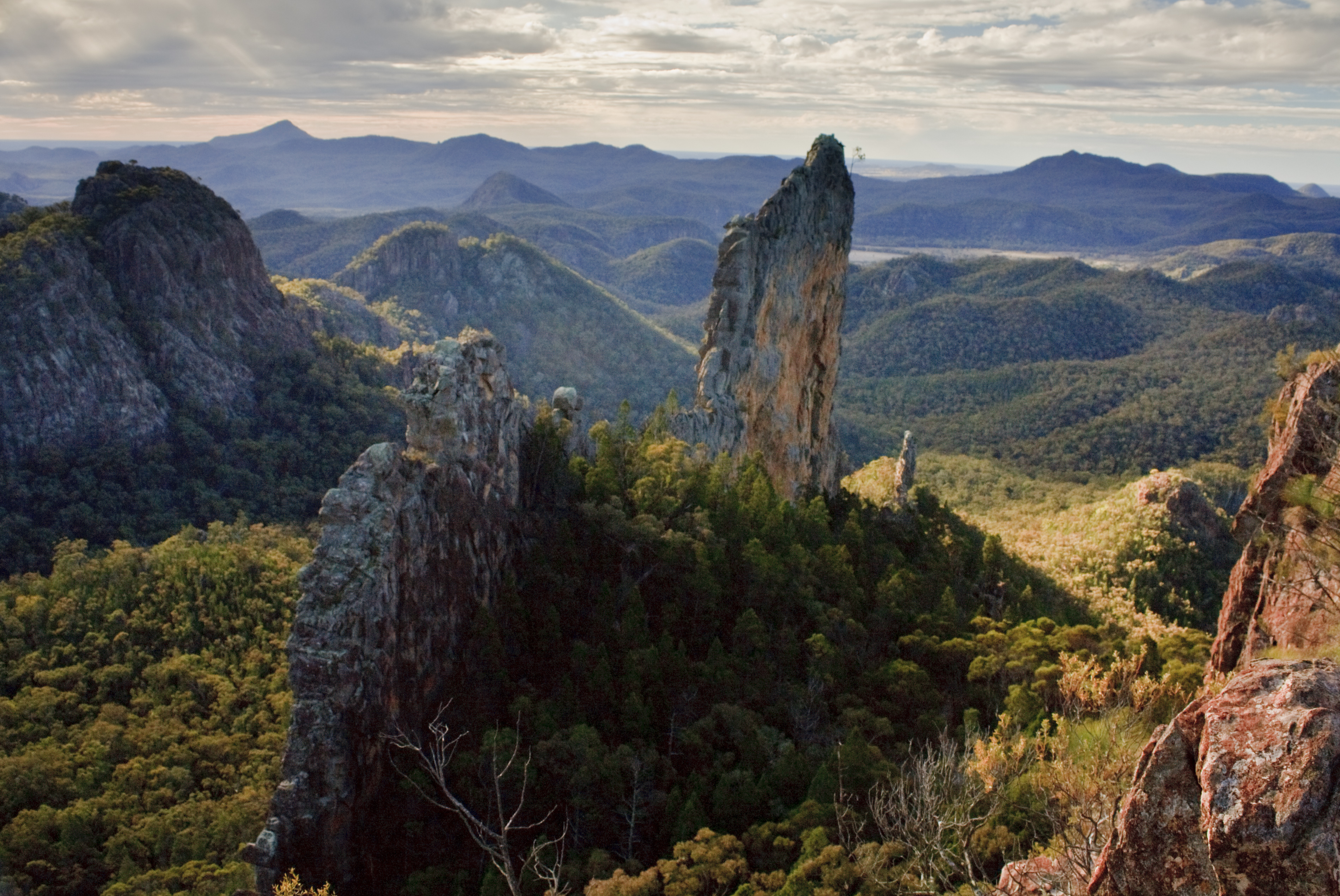 The Breadknife, in Warrumbungle National Park, NSW Australia.